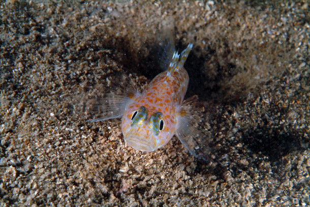 Thorogobius macrolepis photographed in Tuscany (Italy). Photo by Stefano Guerrieri